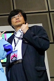 Takaaki Kidani, President of the Bushiroad, Inc., visited the Anime Festival Asia in Singapore on November, 2010.